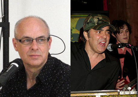 Collage of photos of Brian Eno and Daniel Lanois